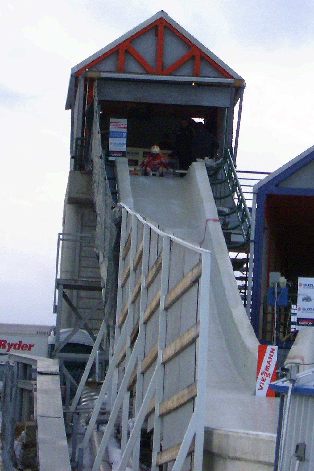 A picture of a racer in the Men's Competition about to start at the World Cup Luge Races held at Canada Olympic Park on December 9, 2006.